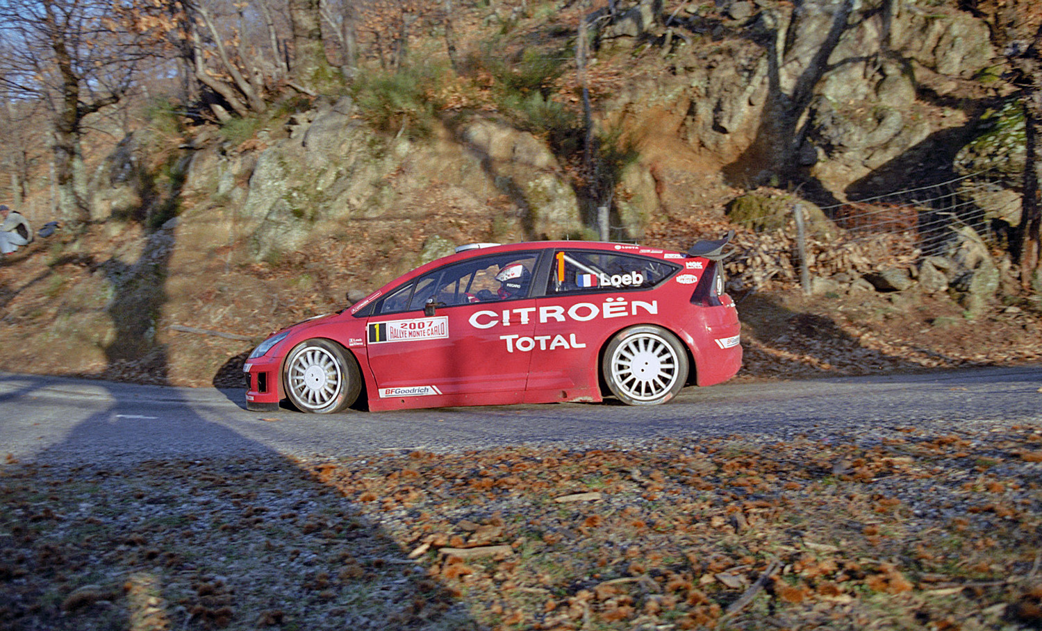 Sébastien Loeb driving Citroën C4 WRC during 2007 Monte Carlo Rally.